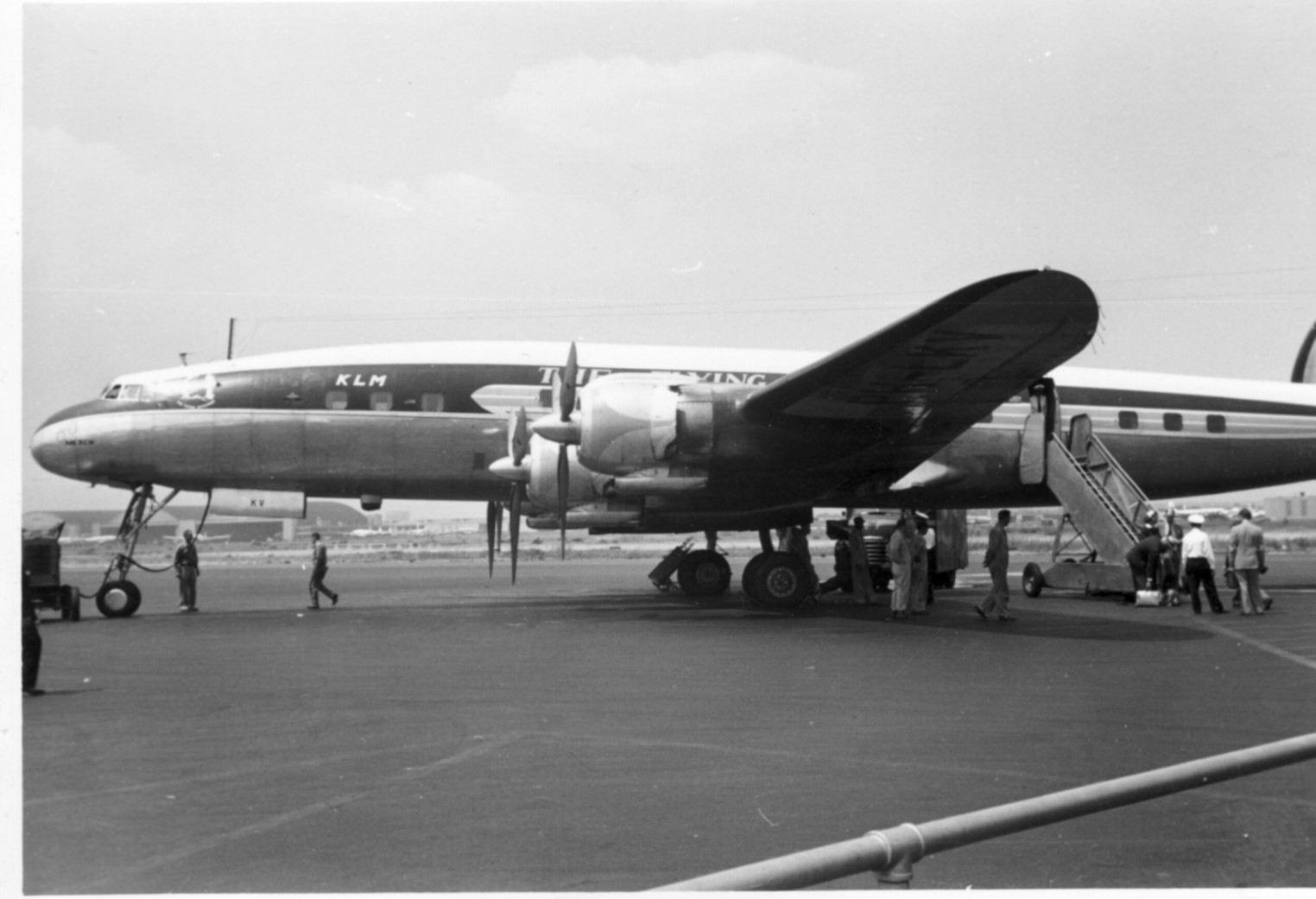 Super Consteallation at New York Airport, flight: Fuerth (Germany) - Amsterdam - Shannon - New York